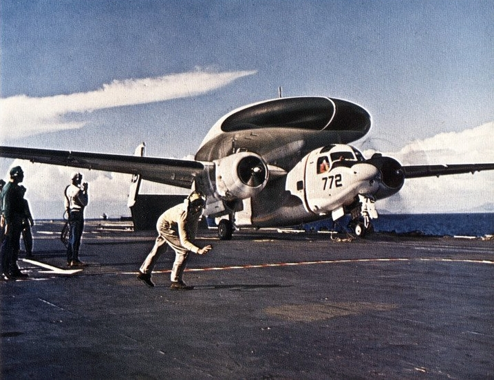 A U.S. Navy Grumman WF-2 Tracer from Airborne Early Warning Squadron VAW-12 Det.37 "Bats" on the catapult of the aircraft carrier USS Franklin D. Roosevelt (CVA-42). VAW-12 Det.37 was assigned to Carrier Air Group 1 (CVG-1) aboard the FDR for a deployment to the Mediterranean Sea from 15 February to 28 August 1961.